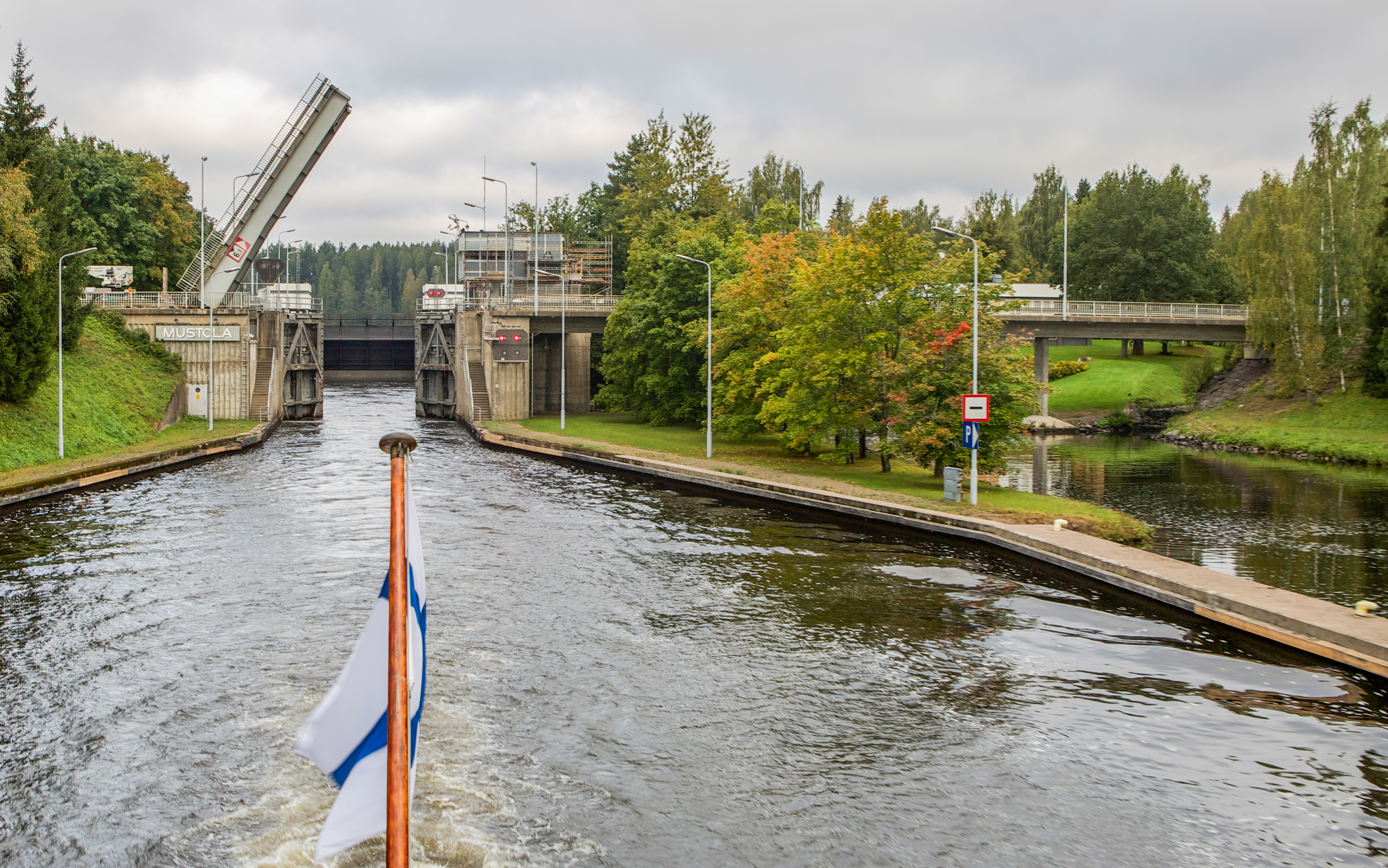 Mustola lock in Saimaa canal, Finland